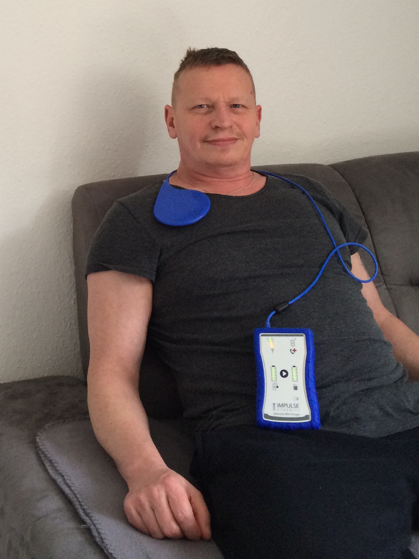 A heart failure patient with a CCM device charges his device wirelessly using the battery charger. The battery charger is portable, allowing the patient to move freely while charging. The battery of the IPG can be charged wirelessly through the skin, without contact, since the charger operates by induction.